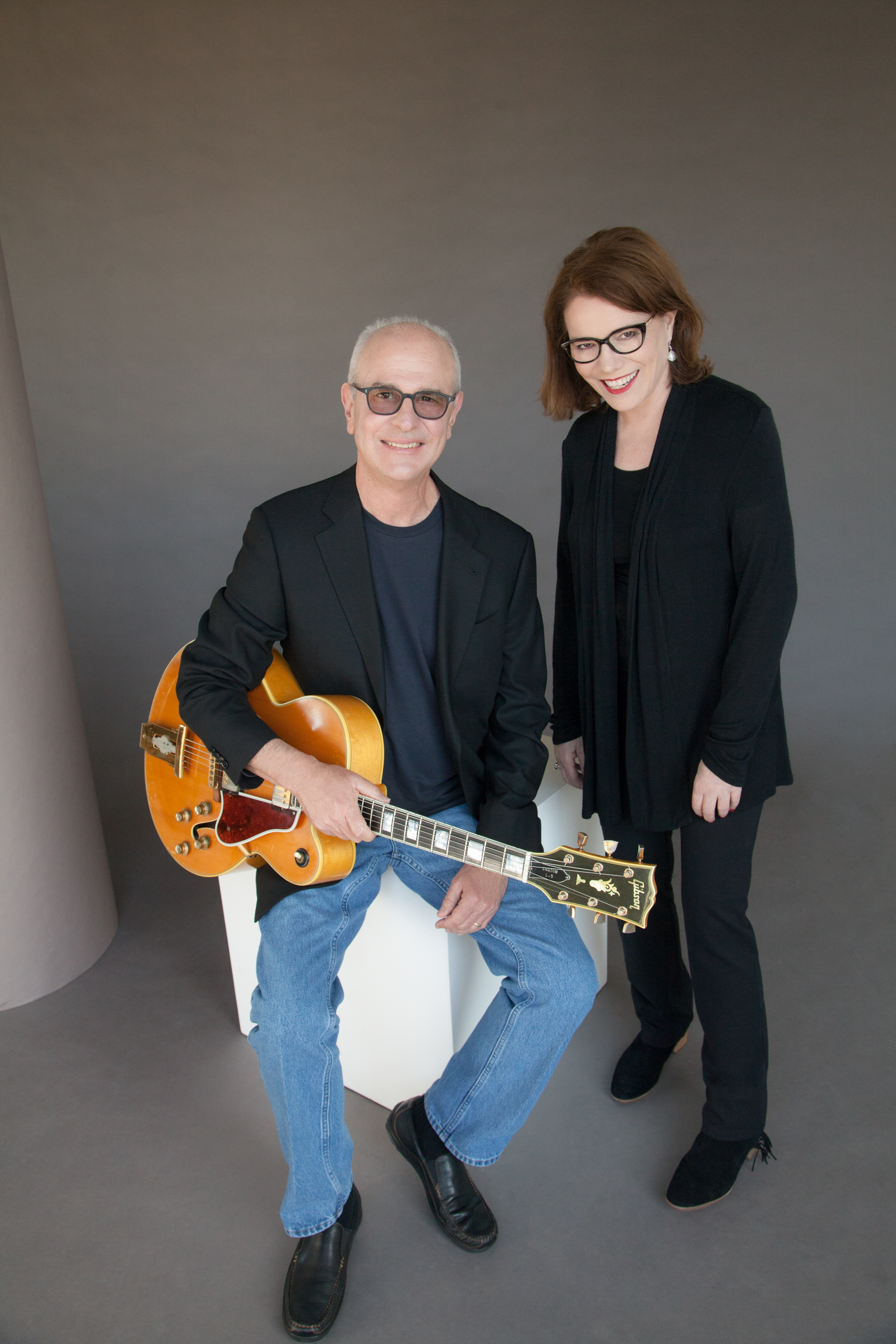 Eddie Arkin and Lorraine Feather, Math Camp photo shoot—photo by Mikel Healey